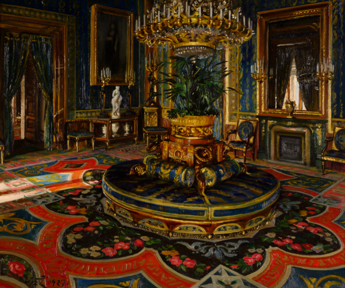 Ranken, William Bruce Ellis; Blue Ante Room; Southampton City Art Gallery